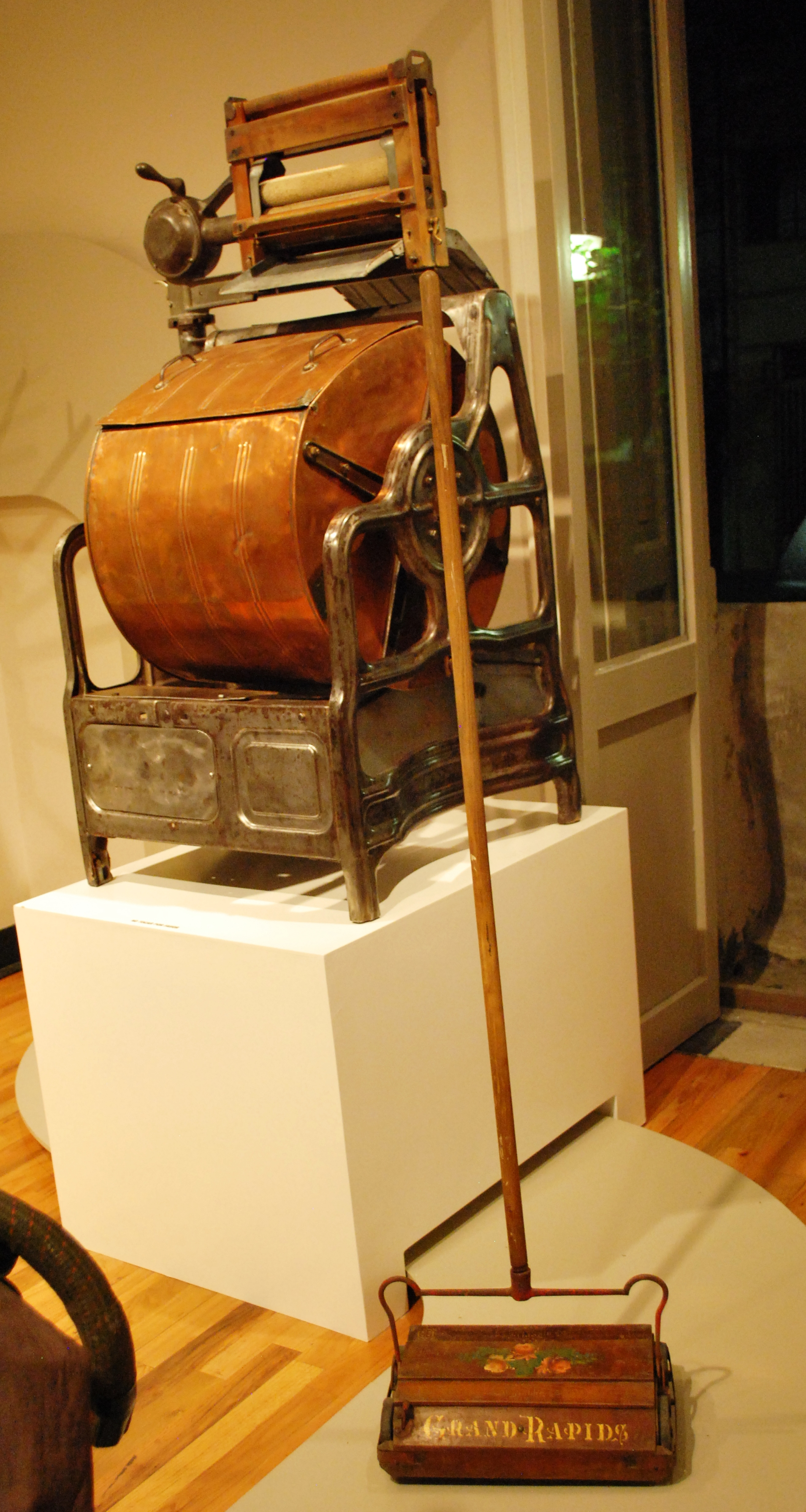 Old washing machine and sweeper on display at the Museo del Objeto del Objeto in Mexico City